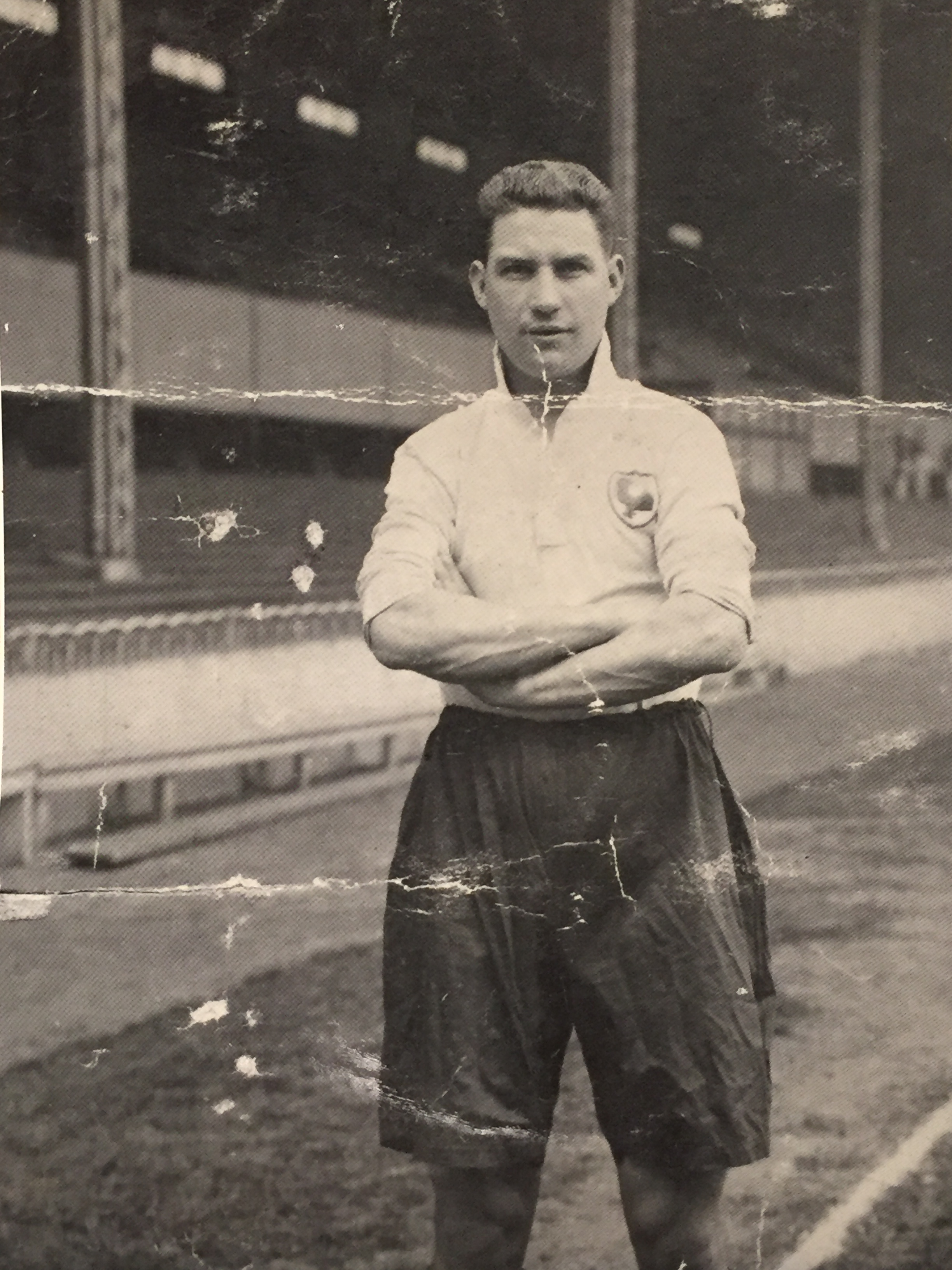 Dave Colquhoun 1930s